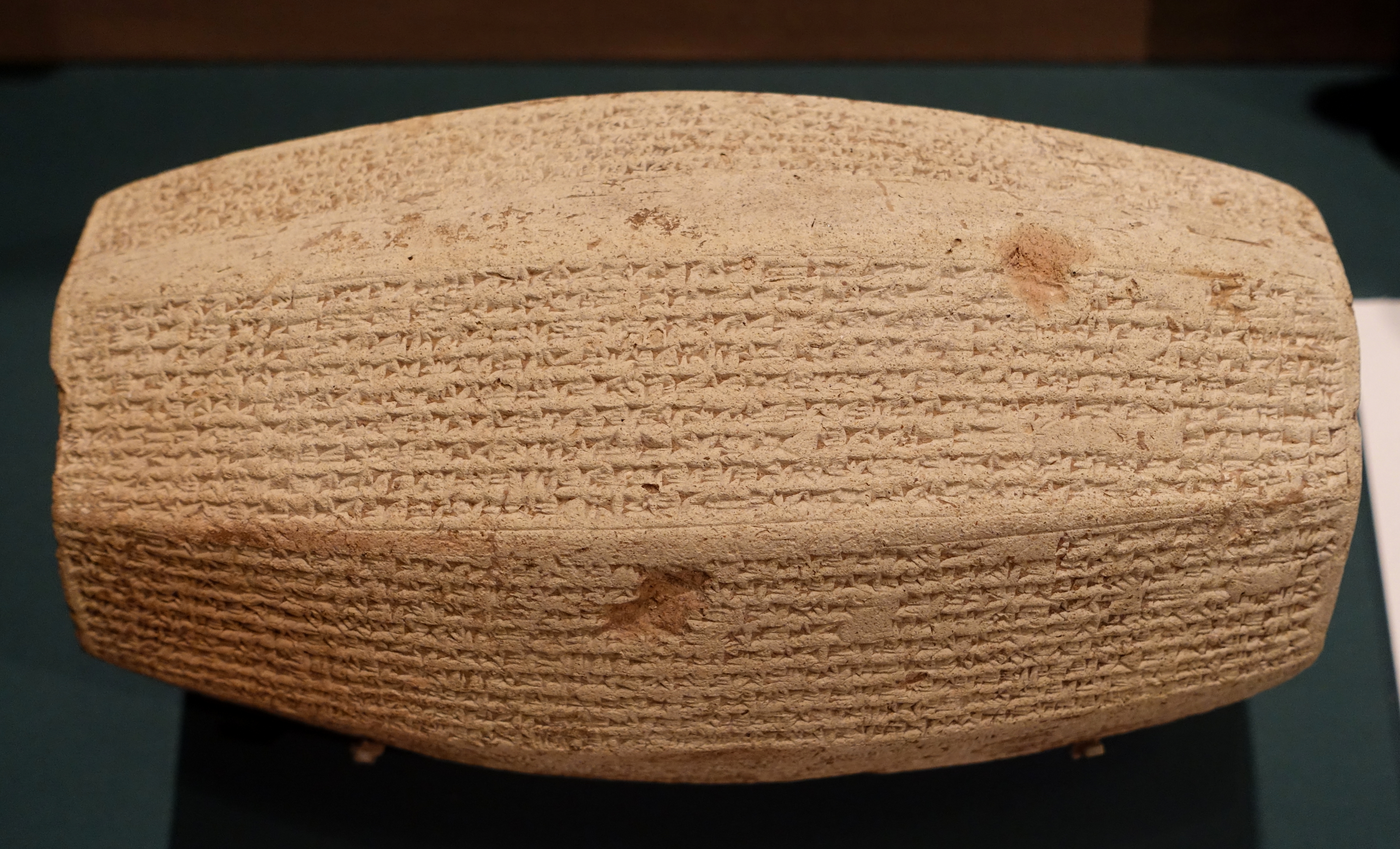 Exhibit in the Oriental Institute Museum, University of Chicago, Chicago, Illinois, USA. This work is old enough so that it is in the public domain. Translation: "In the month of Abu, the month of the descent of the fire-god, destroyer of growing vegetatin, when one lays the foundation platform for city and house, I laid its foundation walls, I built its brickwork. Substantial shrines, built firm as the foundation of eternity, I constructed therein.... Palaces of ivory, mulberry, cedar, cypress, juniper, and pistachio-wood I built at their lofty command for my royal dwelling-place."